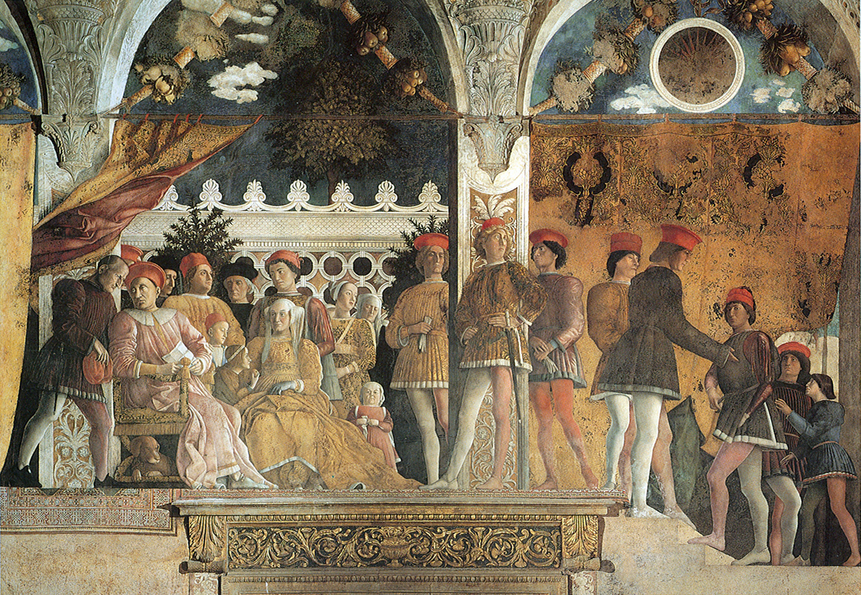 north wall of the Camera degli Sposi in the north east tower of the Castel San Giorgio, Mantua